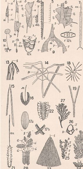 Graptolite morphology illustrated from the Encyclopædia Britannica.